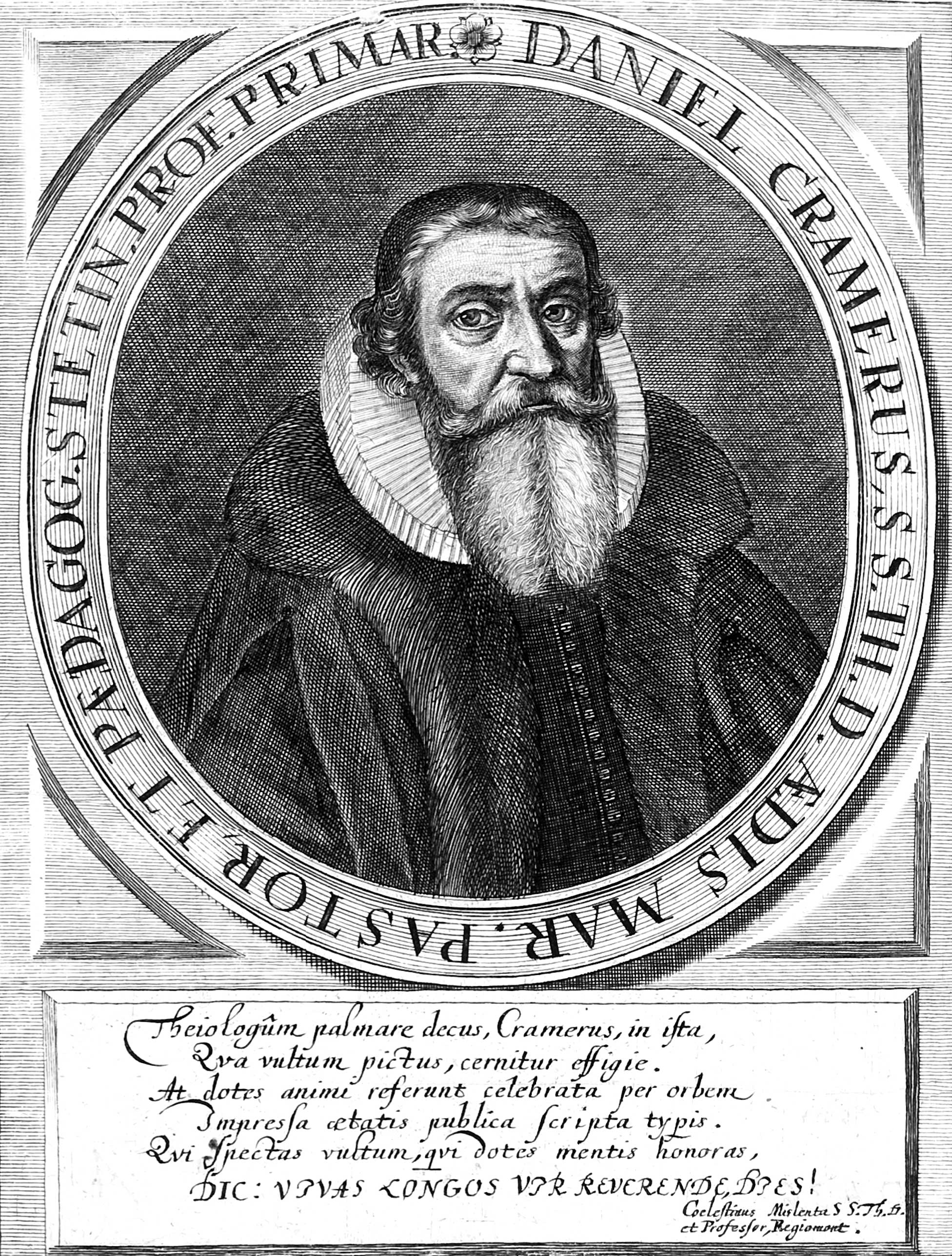 Potrait of Daniel Cramer, copper engraving 179x135 mm